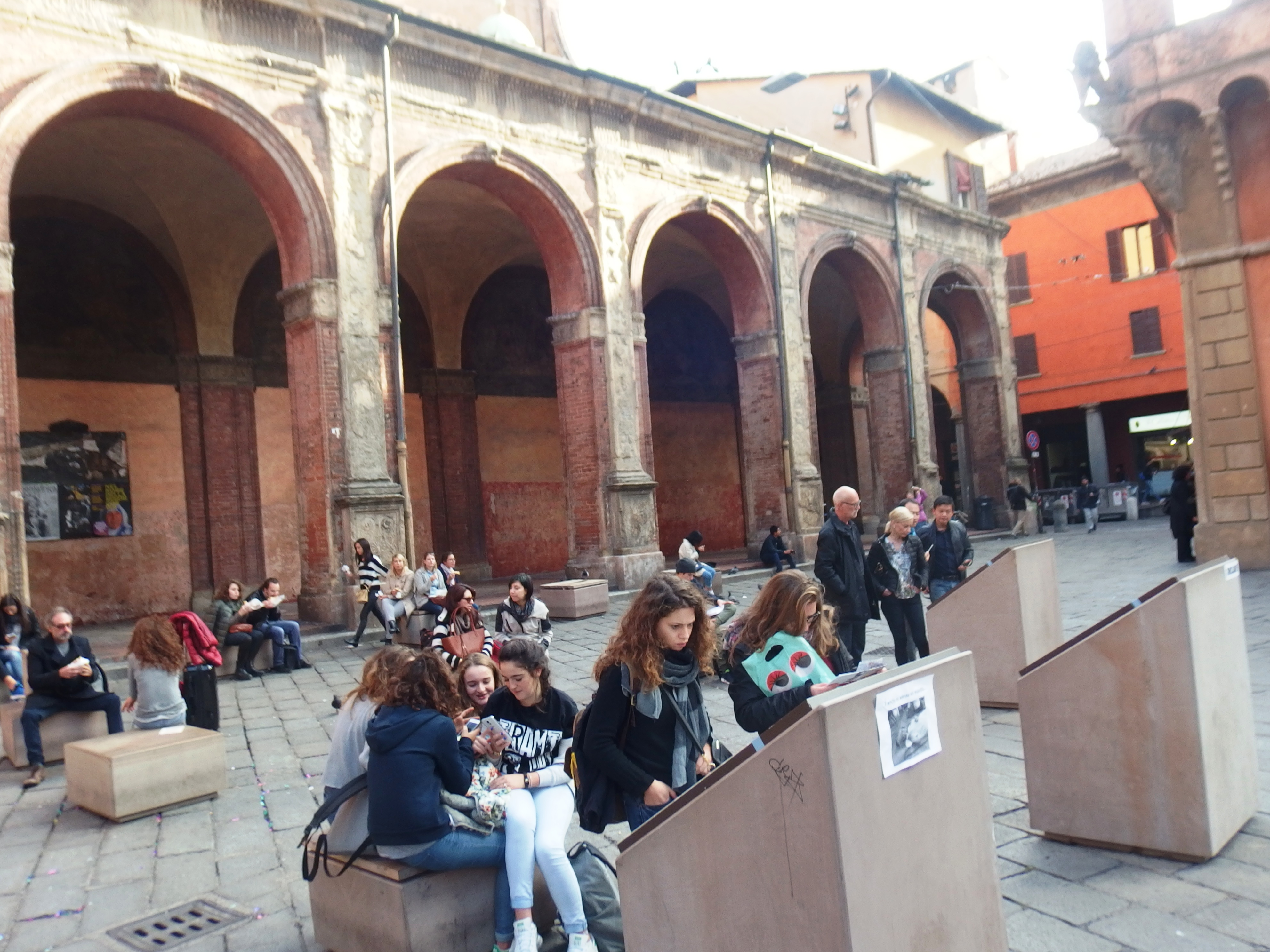 Bologna, Italy. Piazza Ravegnana Square.